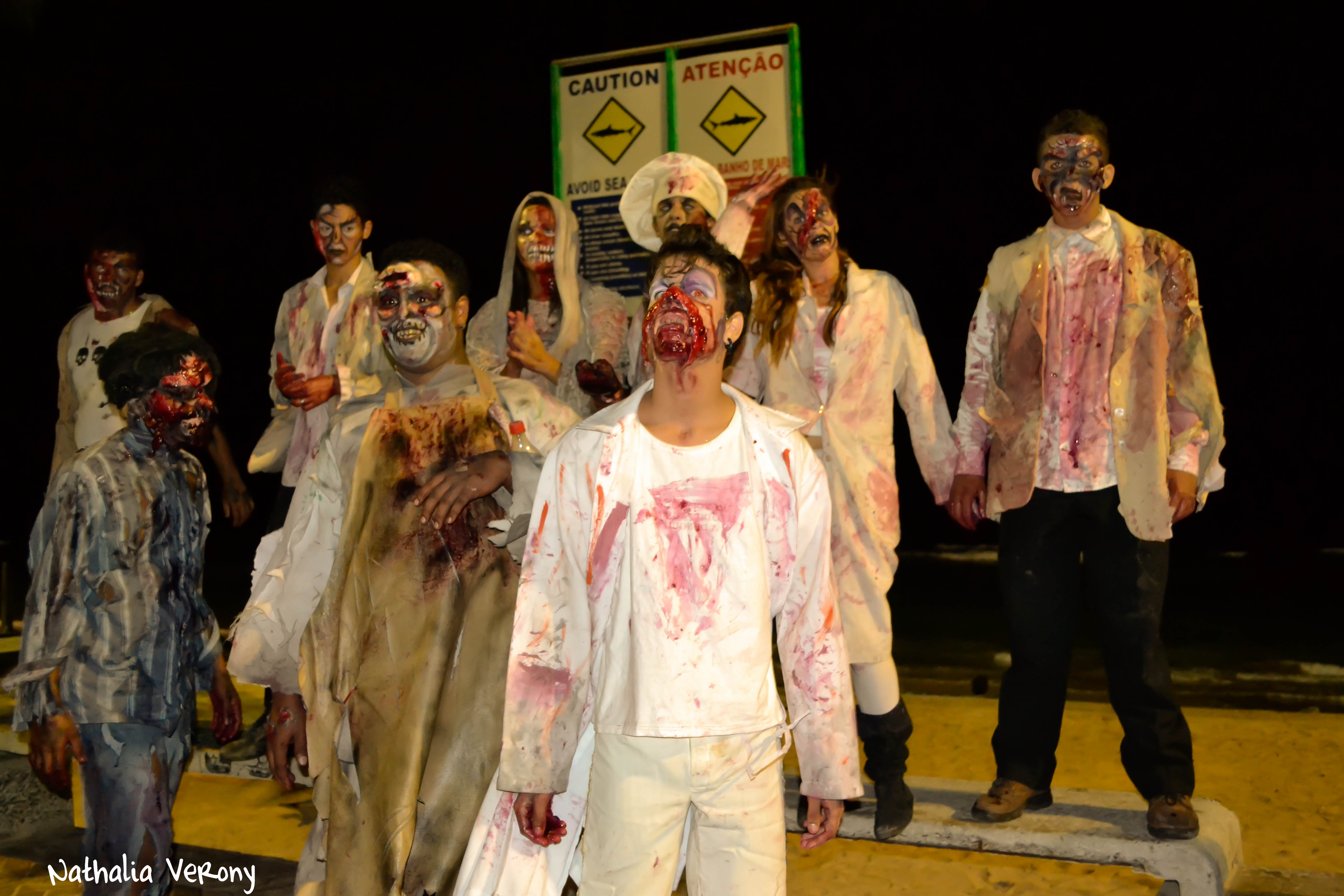 Zombie Walk in Recife, Brazil, 2012